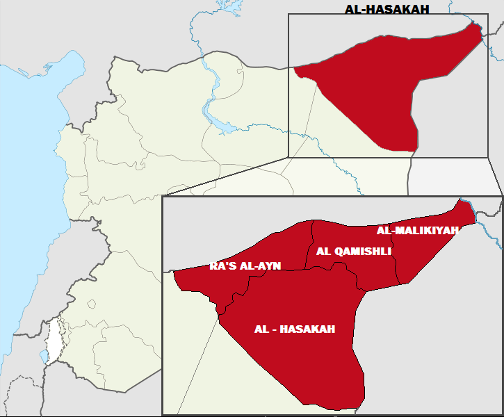 Al-Hasakah Governorate on Syria Map with Governorates.